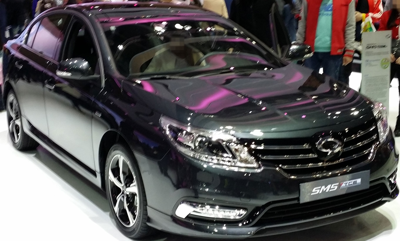 Renault Samsung SM5 Nova